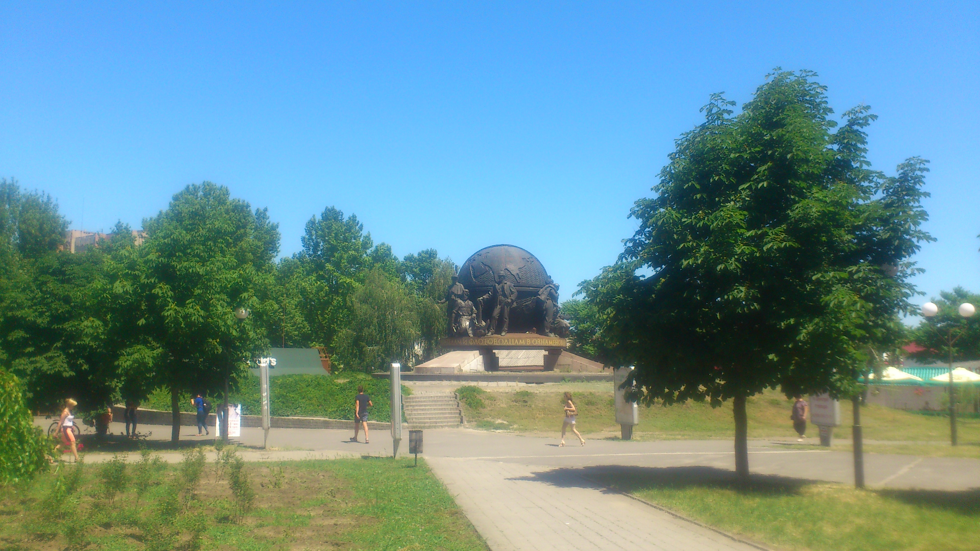 Monument to shipbuilders and naval commanders